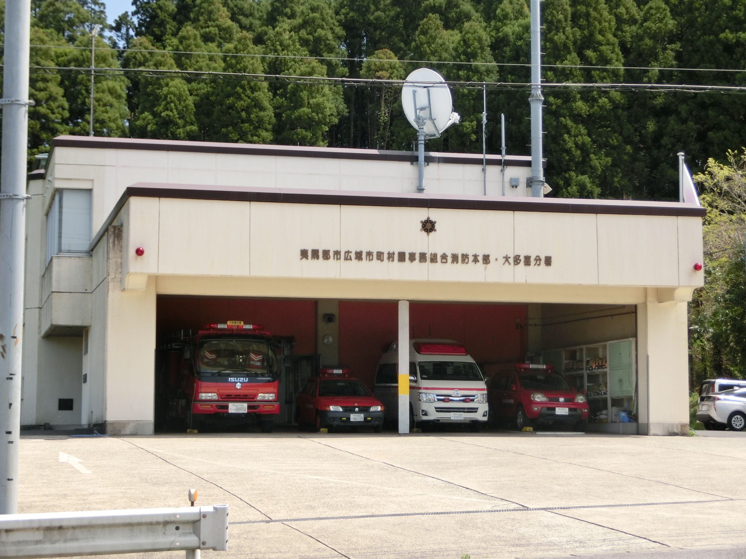 Isumigunshi Wide-Area Municipal Zone Affairs Association Fire Department